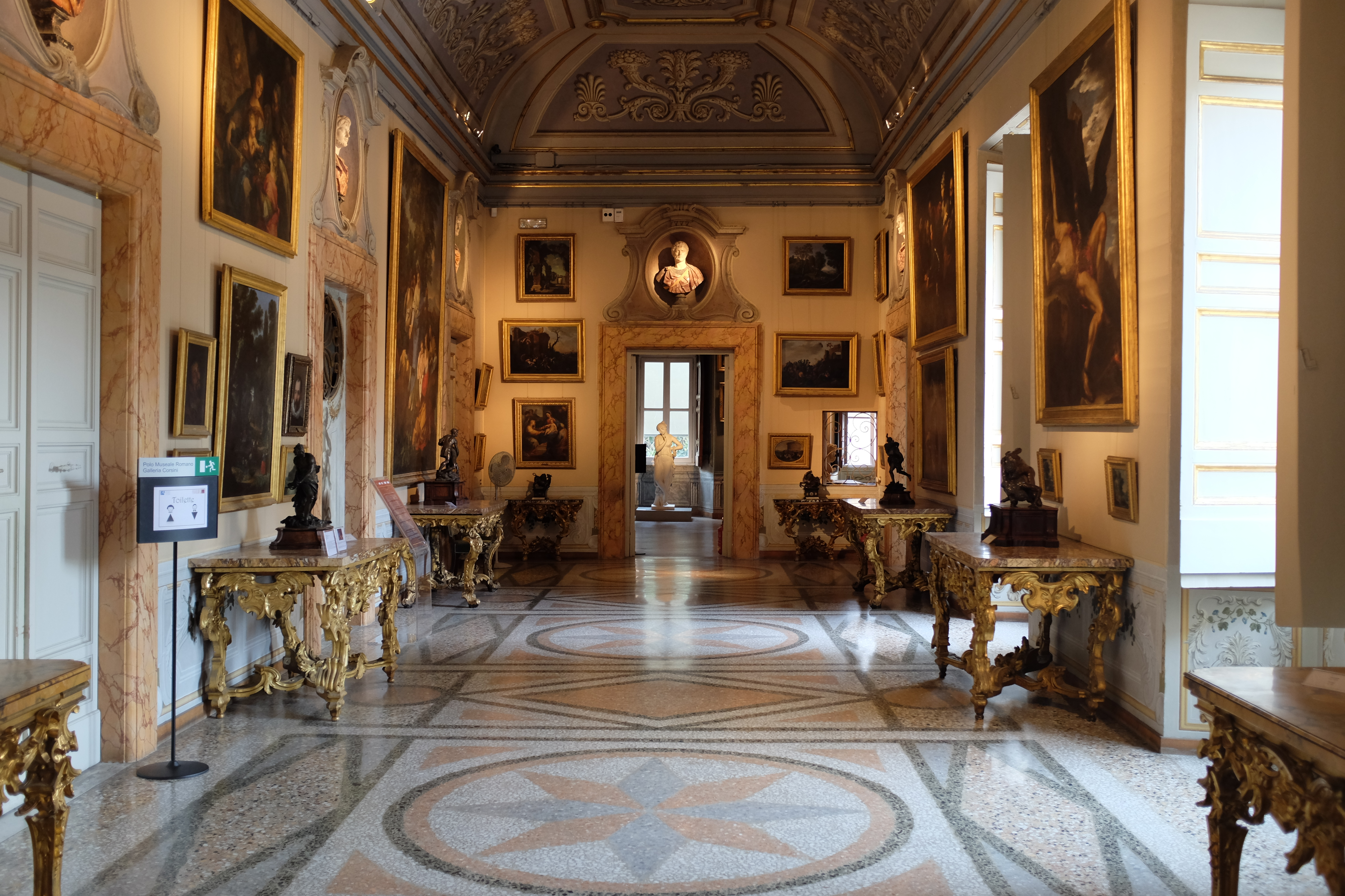 The Galleria Nazionale d'Arte Antica in the Palazzo Corsini, Rome